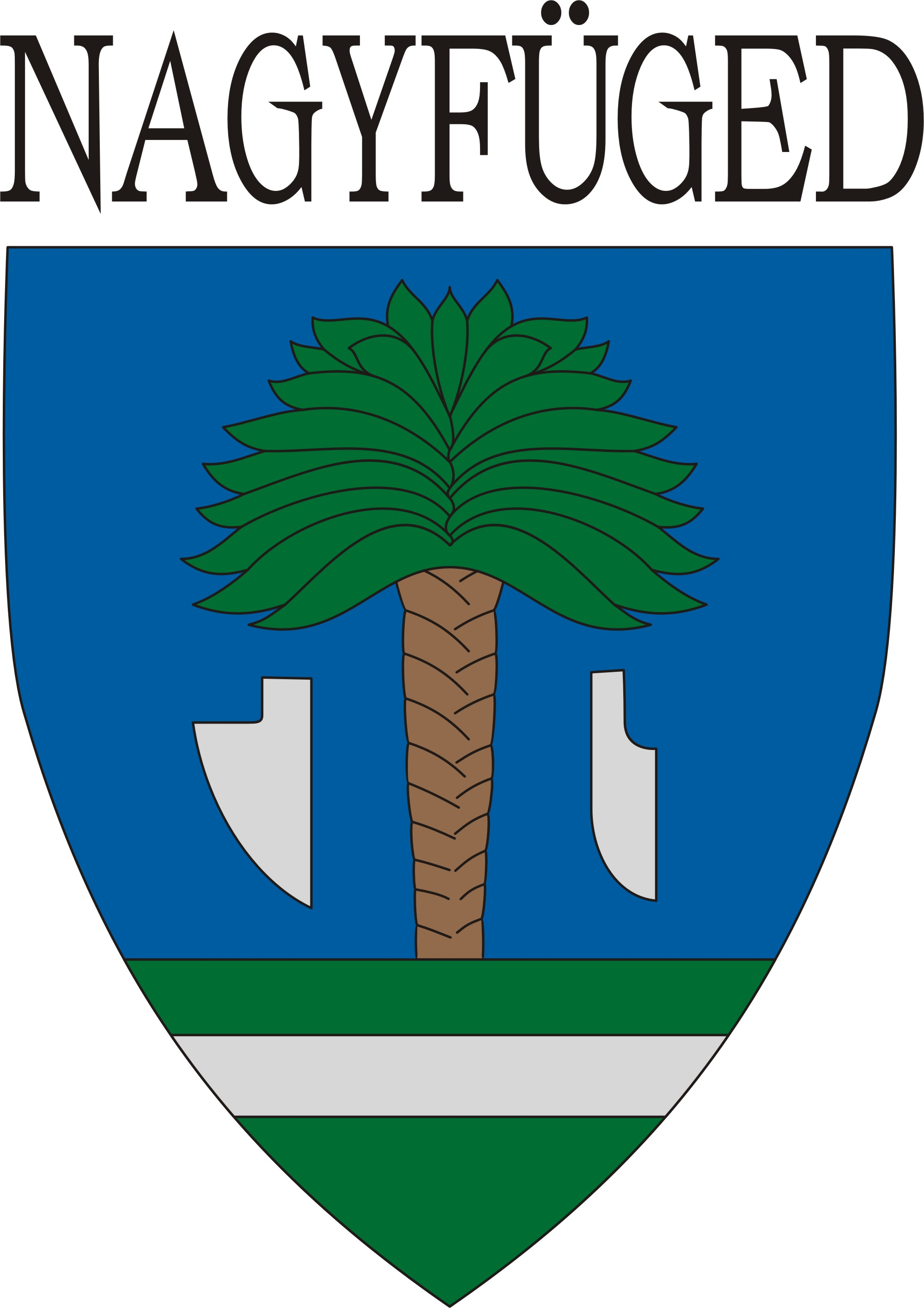 Coat of arms of Nagyfüged, Hungary